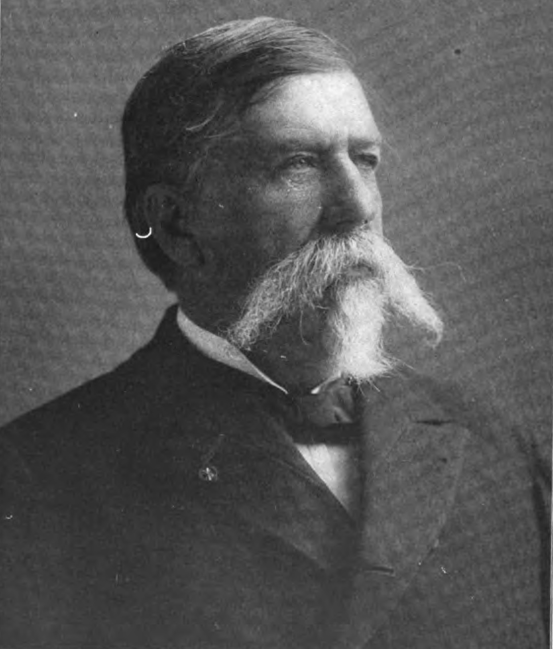 George Spalding (Michigan Congressman)